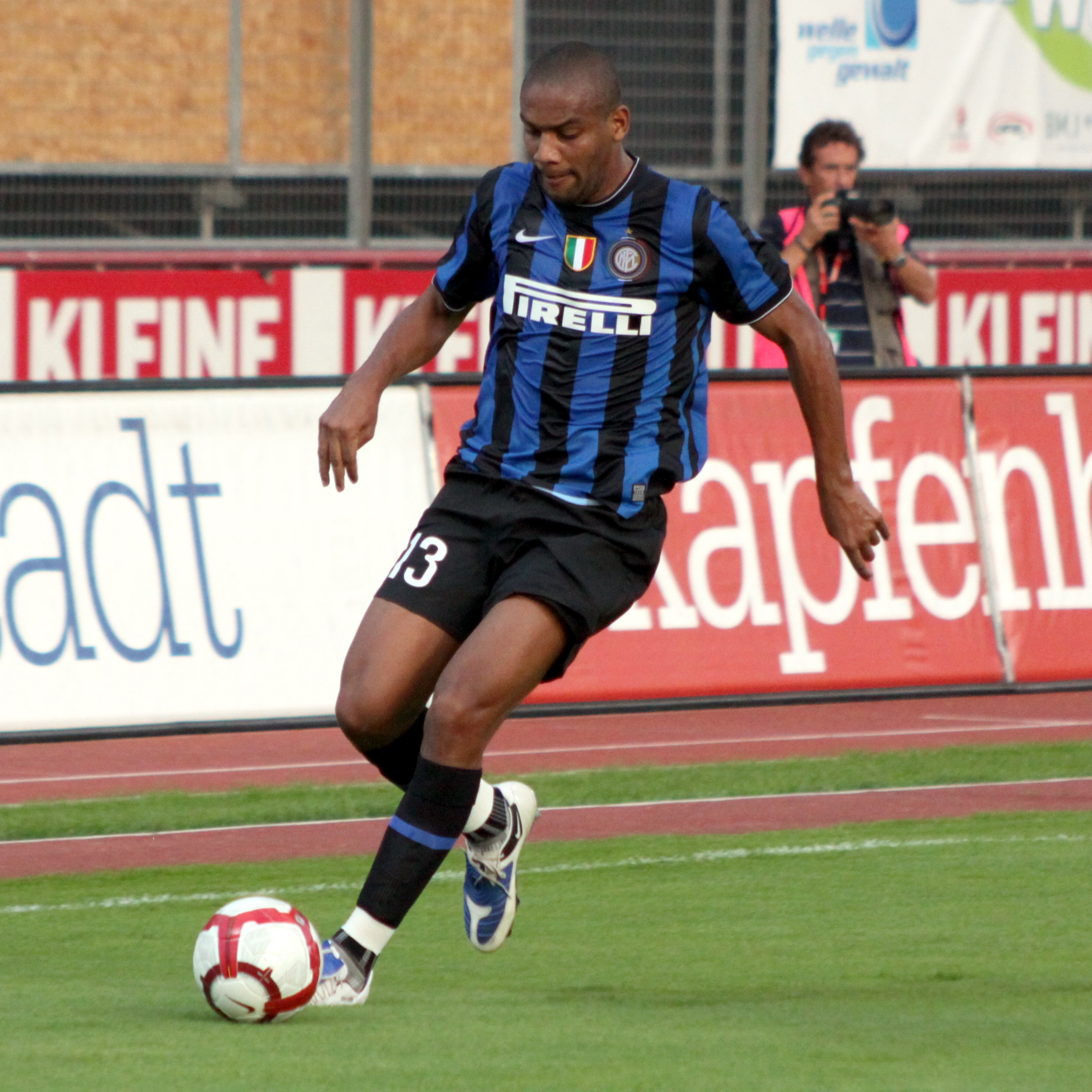 Maicon Douglas Sisenando - F.C. Internazionale Milano